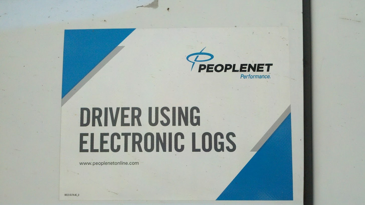 This sticker is on the outside of a commercial vehicle signifying the driver is using an EOBR